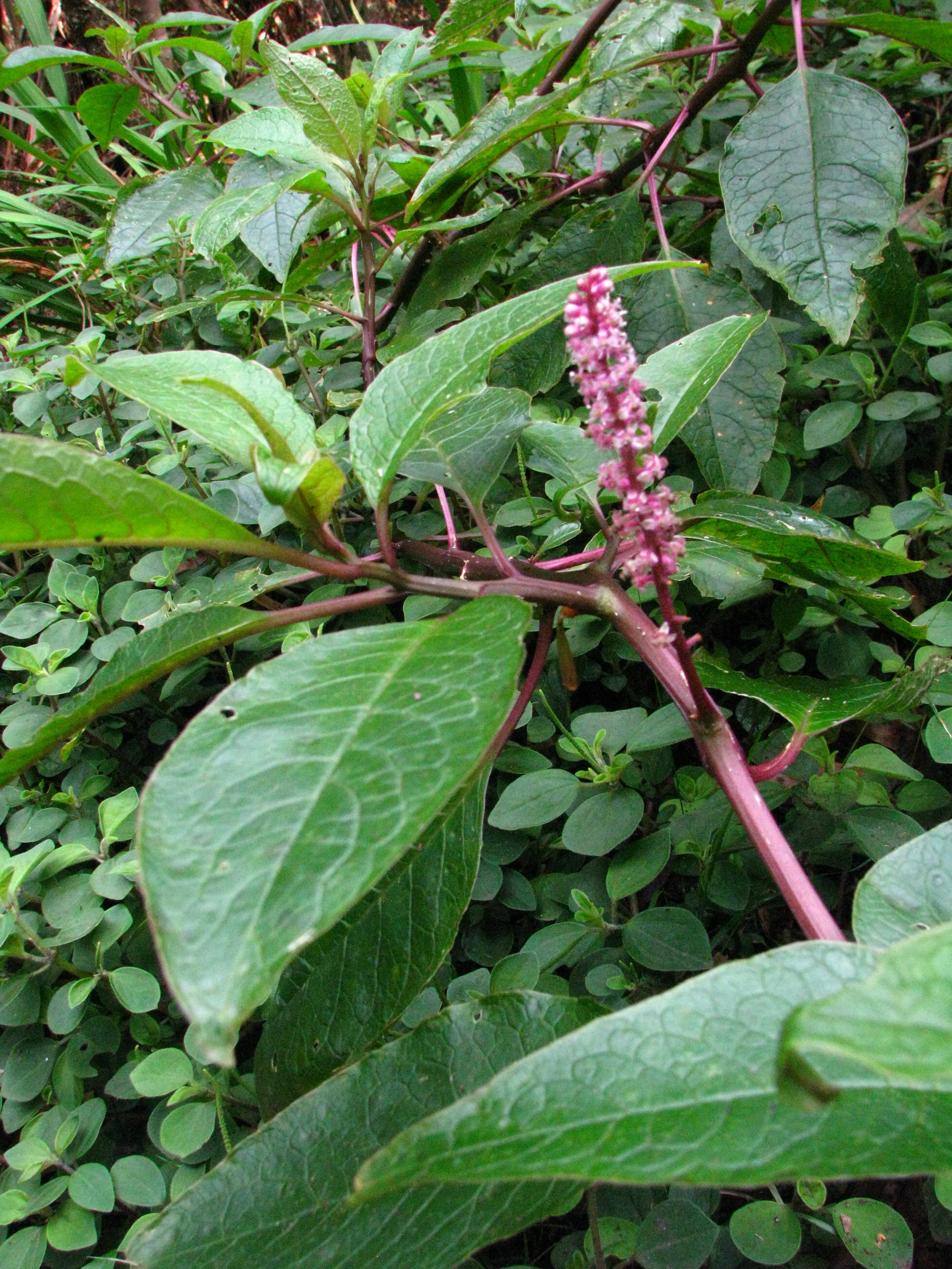 Pōpolo kū mai or Hawaiian Pokeweed Phytolacca sandwicensis, Kīpukapuala, Hawaiʻi Island. Endemic to the Hawaiian Islands